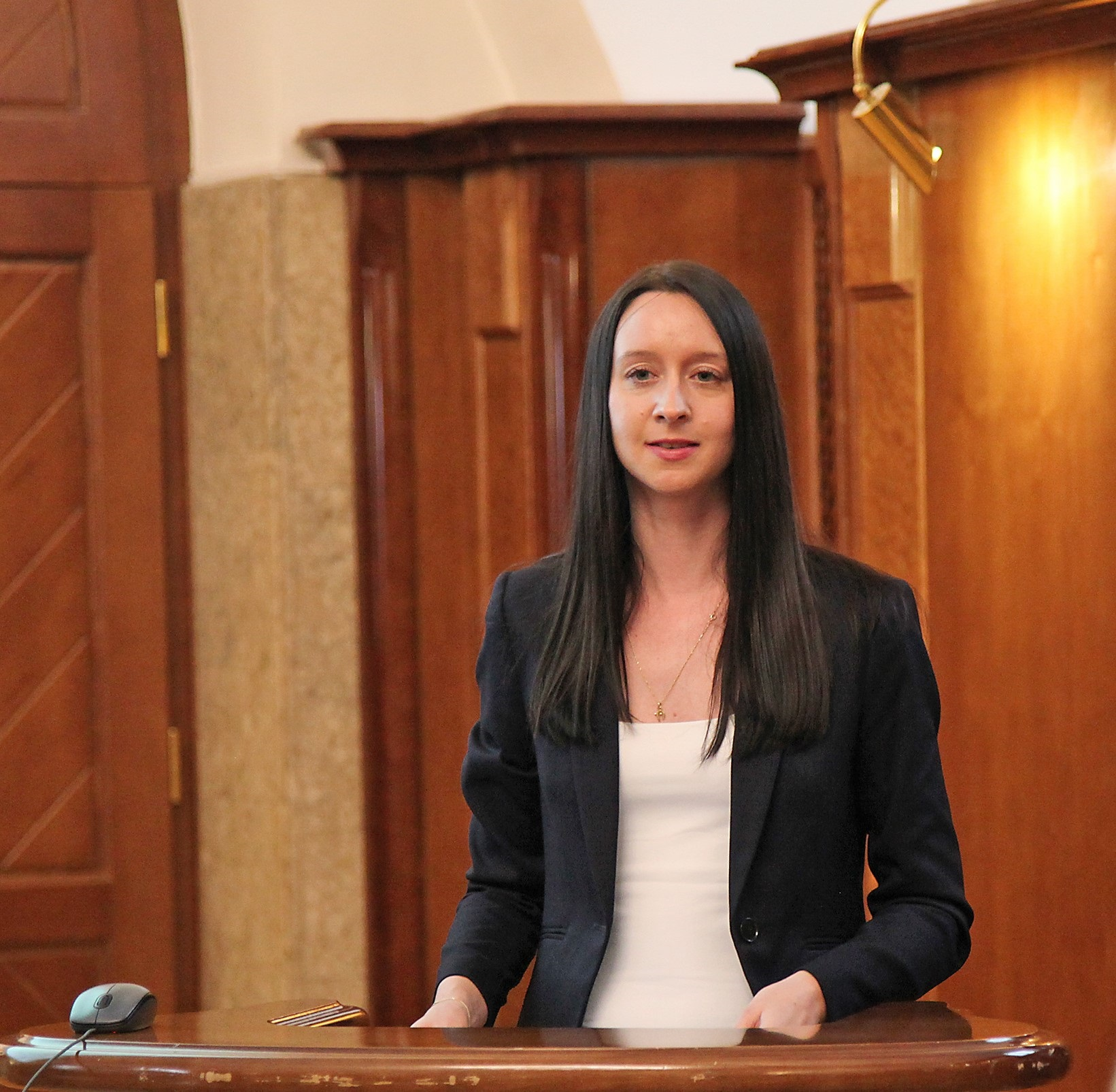 Nina Ditmajer (b. 1988) Slovene female literary historian, researcher, editor